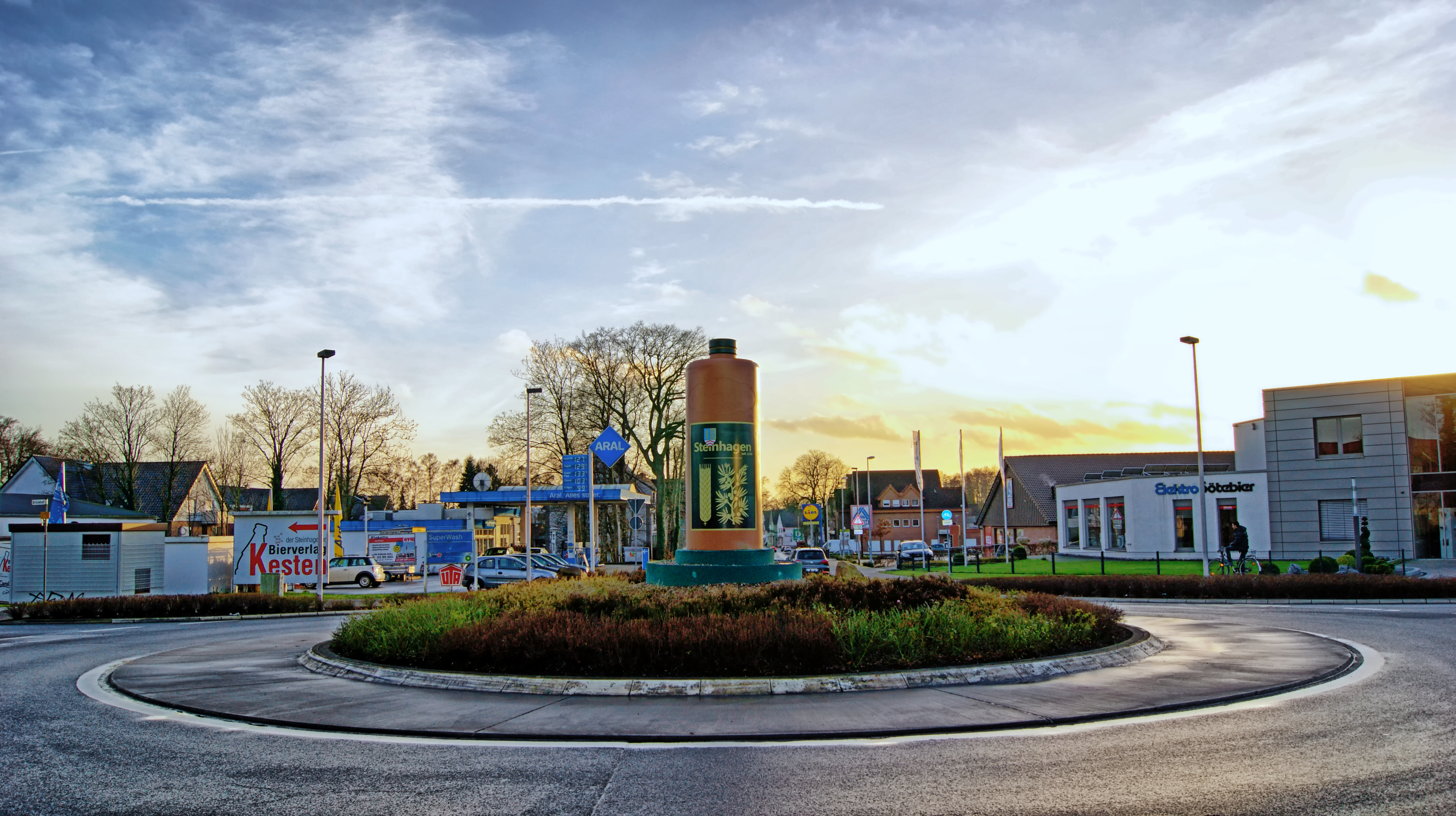 Oversized Steinhaeger-bottle ("Kruke") on a roundabout in Steinhagen, Westphalia, Germany. 2015 erected to commemorate the production of "Steinhager" in Steinhagen.